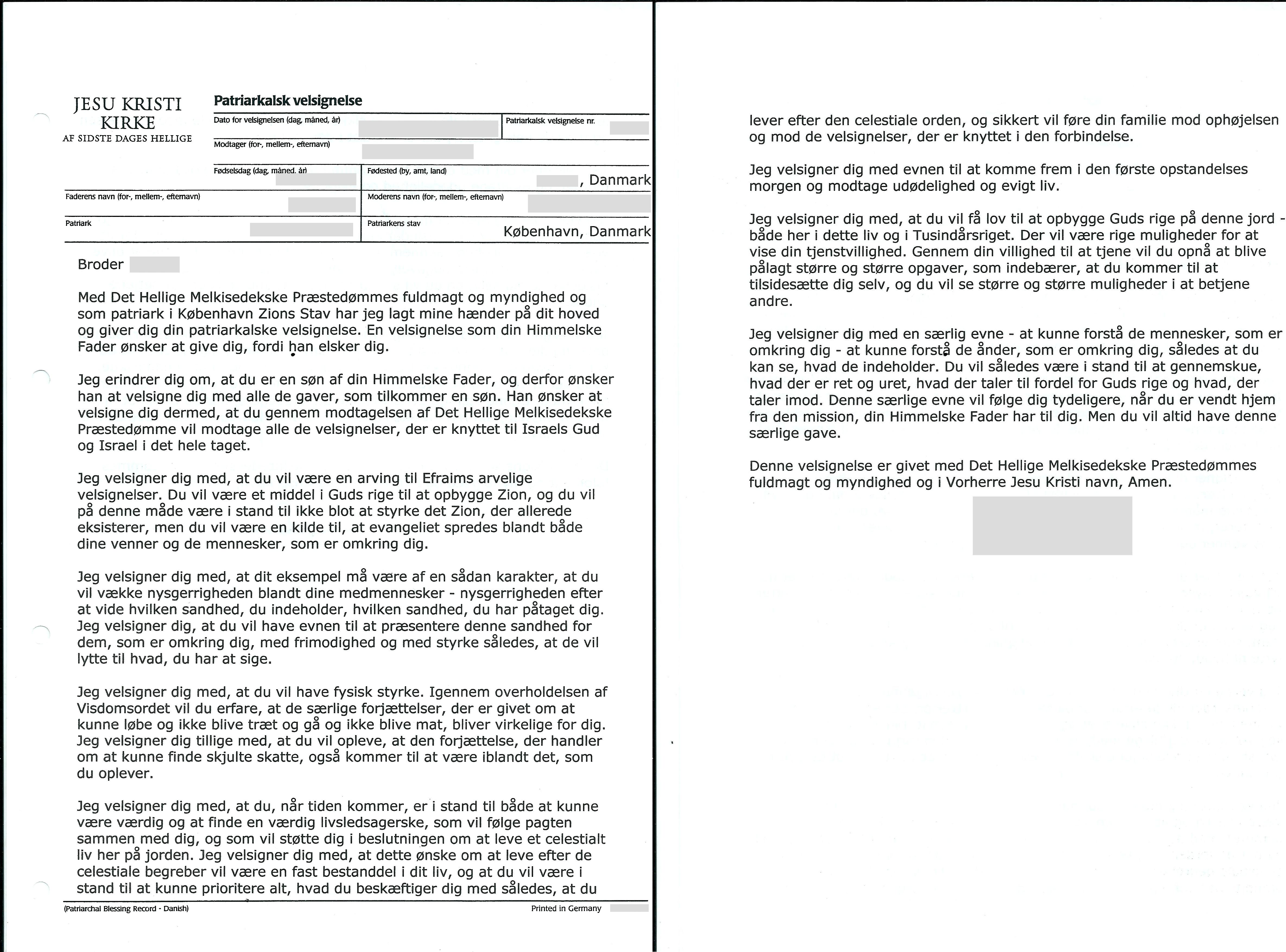 Example of a patriarchal blessing from the "Mormon Church" (The Church of Jesus Christ of Latter-day Saints), in Danish